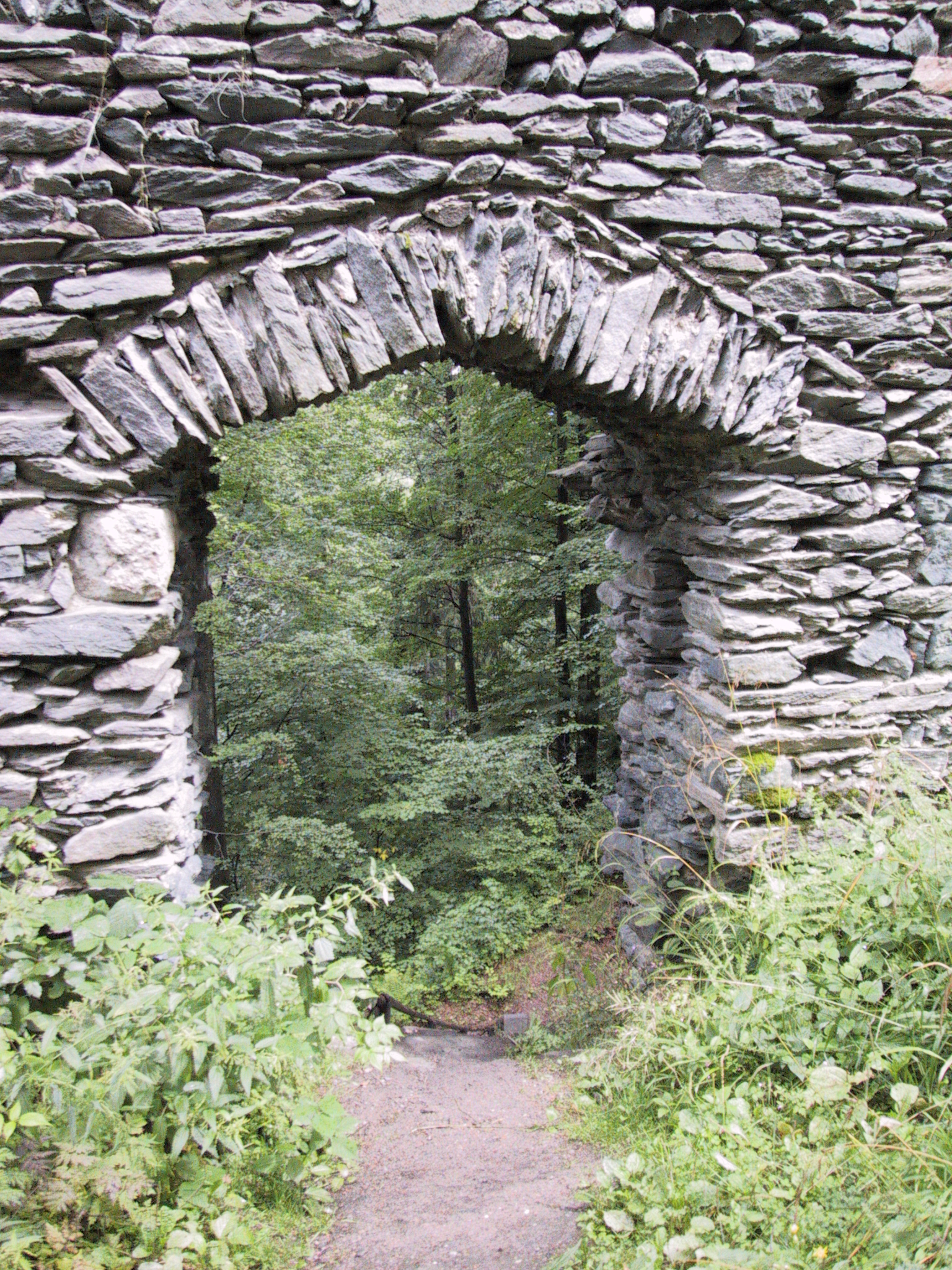 entrance to Castle Szczerba Ruins, Góry Bystrzyckie, Poland